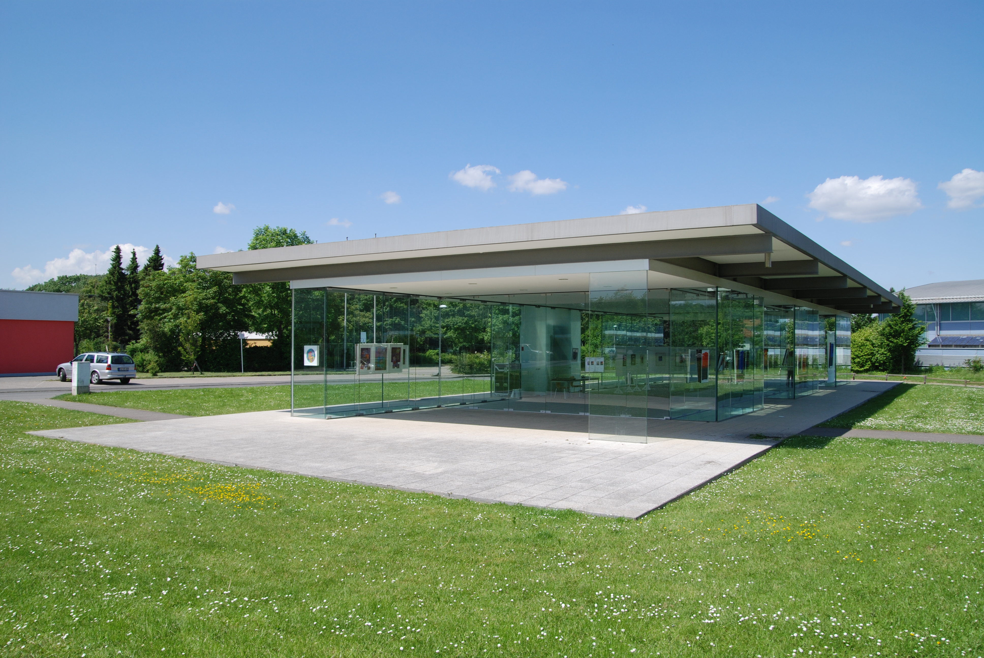 Hans-Schmitz-House in Rheinbach (Germany).